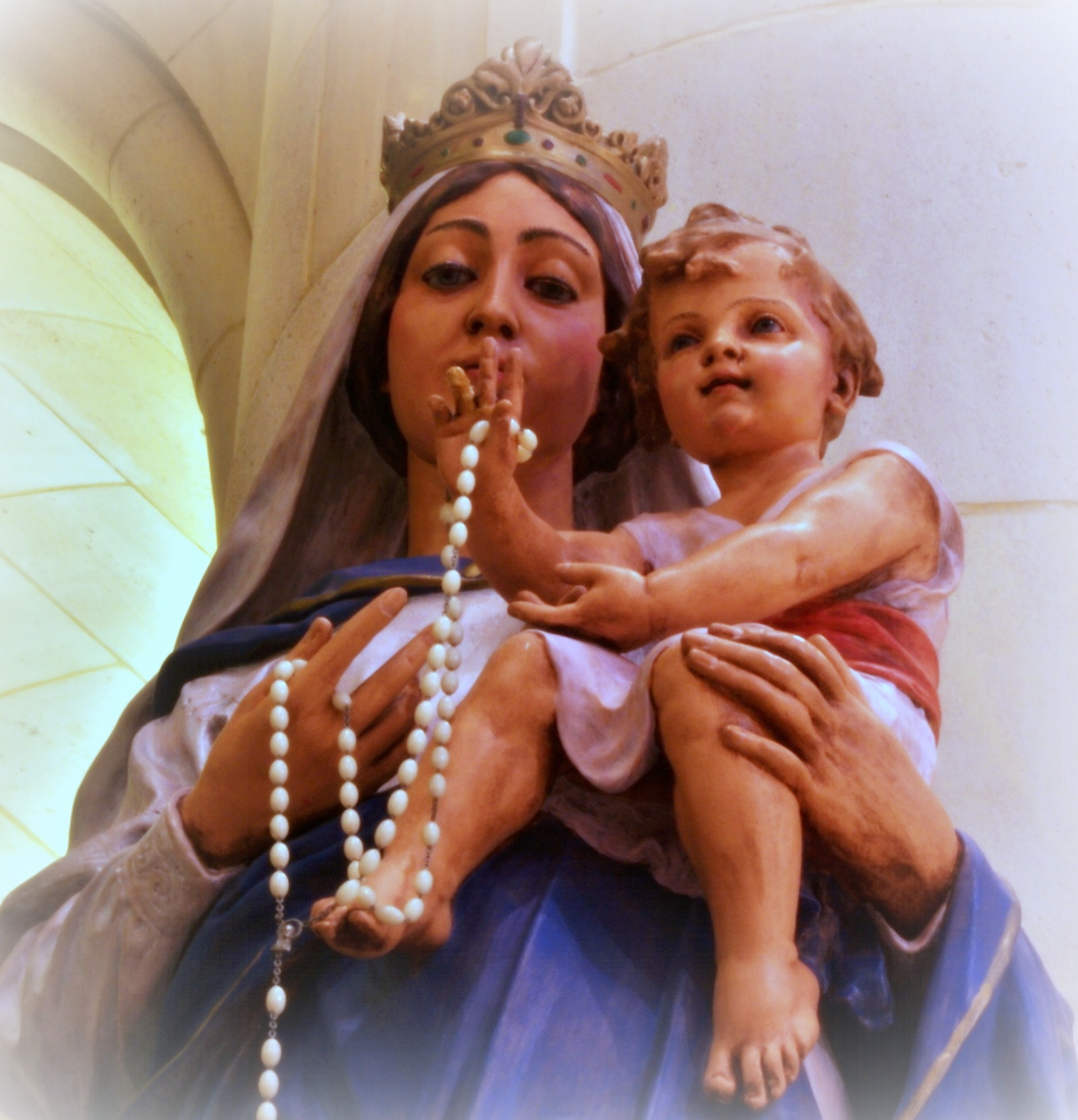 Our Lady, Queen of the Most Holy Rosary Cathedral (Toledo, Ohio) - Our Lady of the Rosary statue looking down